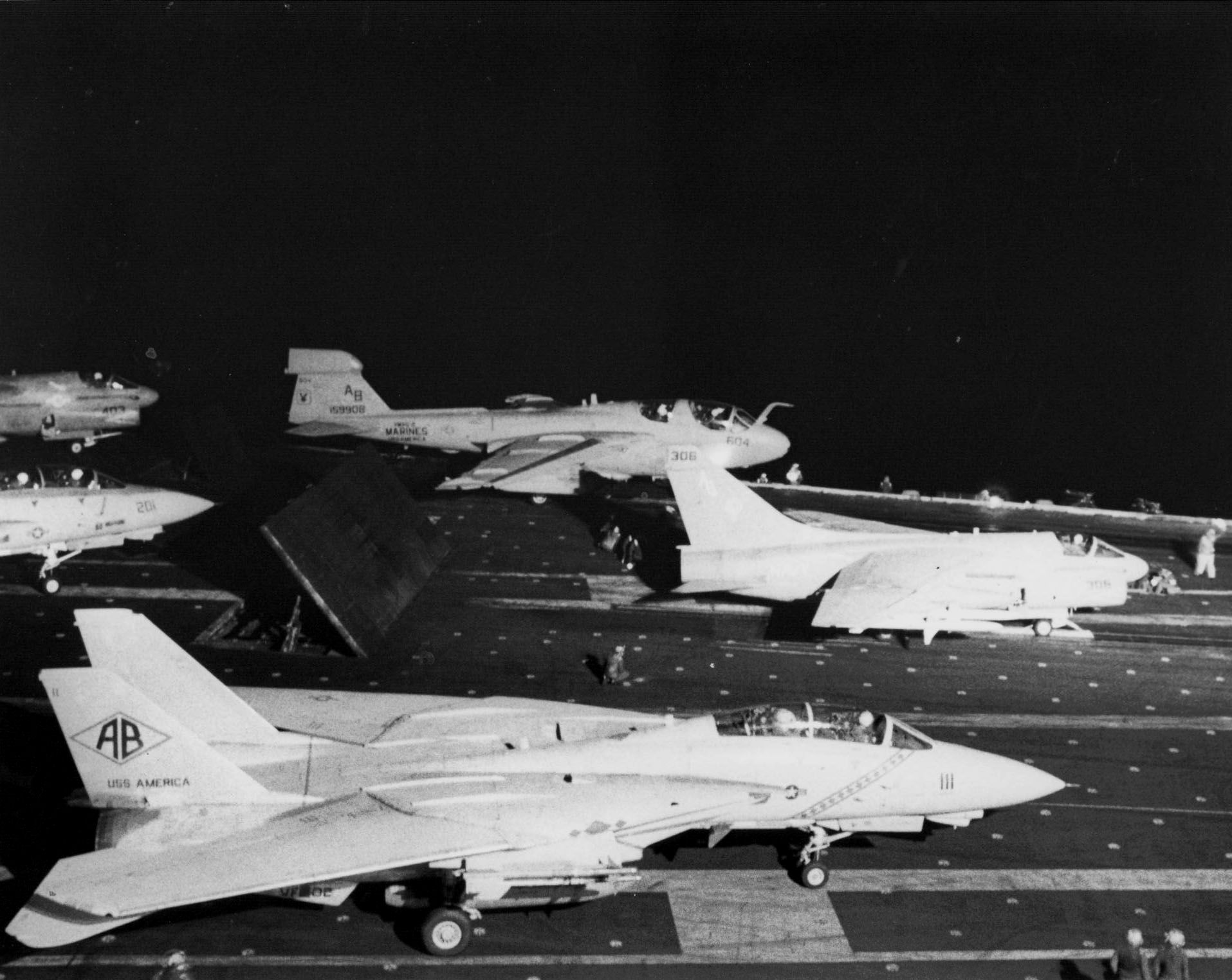 U.S. Navy aircraft are launched from the aircraft carrier USS America (CV-66) during "Operation El Dorado Canyon" on 15 April 1986. Visble are (front to back): A Grumman F-14A Tomcat from Fighter Squadron VF-102 Diamondbacks, a LTV A-7E Corsair II from Attack Squadron VA-46 Clansmen armed with AGM-88 HARM missiles, and a Grumman EA-6B Prowler from Marine Tactical Electronic Warfare Squadron VMAQ-2 Det.Y Playboys. All squadrons were assigned to Carrier Air Wing 1 (CVW-1) aboard the America for a deployment to the Mediterranean Sea from 10 March to 14 September 1986.